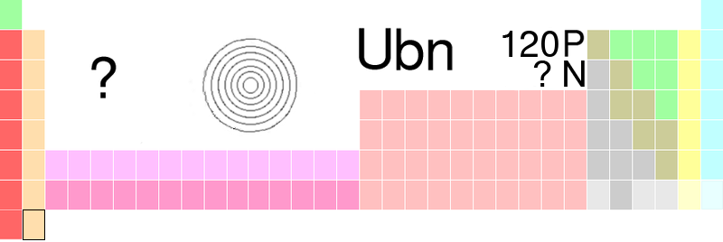 Element 120 in the periodic table